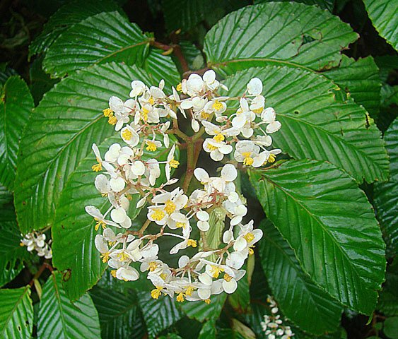 Dick Culbert: Begonia convallariodora graces the cloud forests from southern Mexico to Panama.